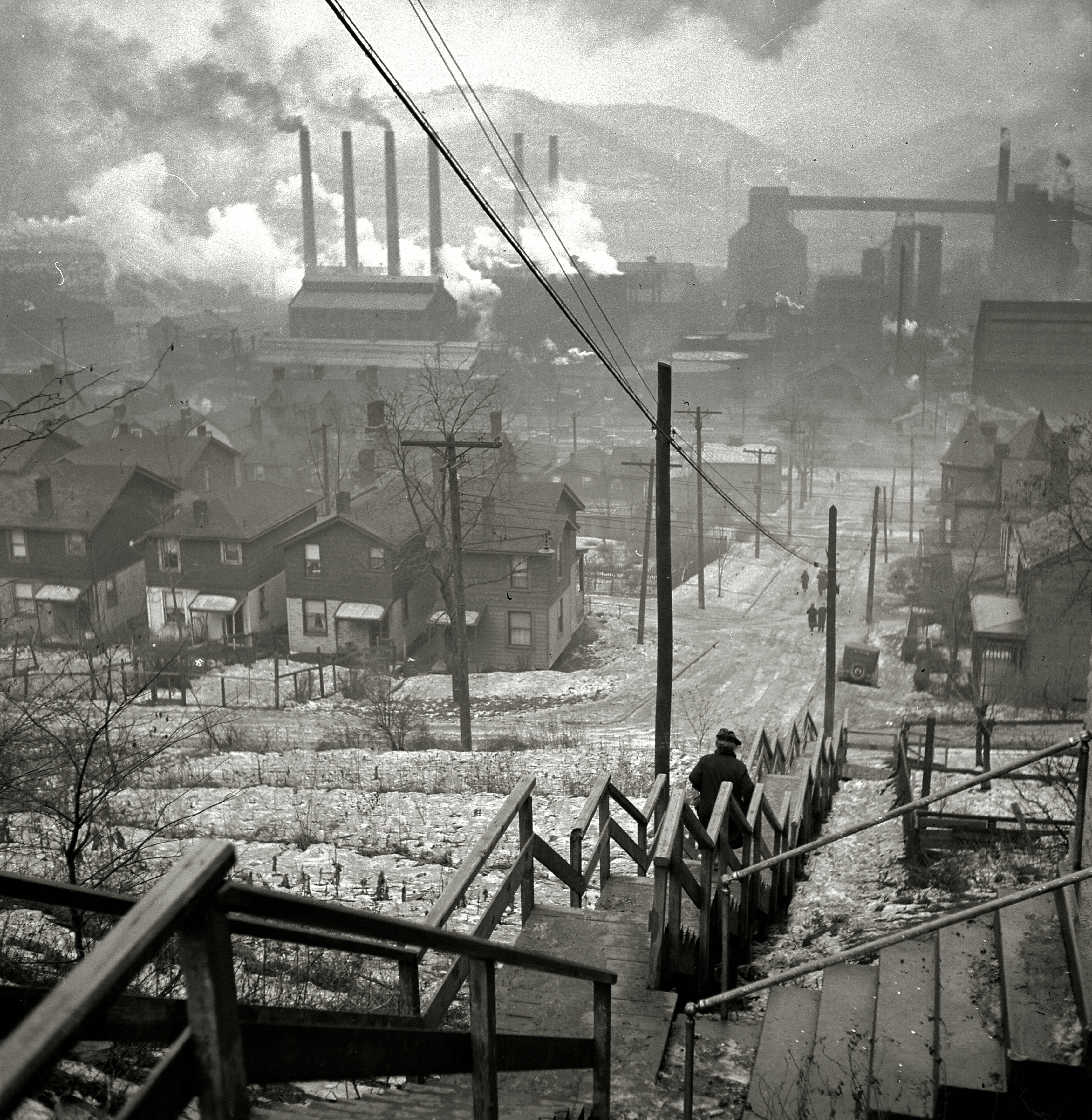 Steel mills and a long staircase in the Hazelwood neighborhood of Pittsburgh, Pennsylvania, United States.